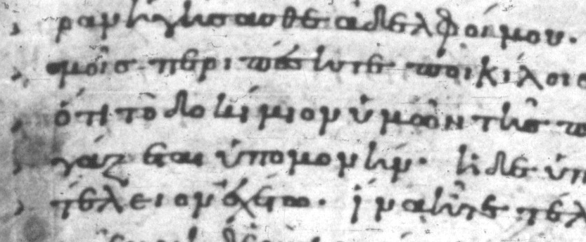 Codex Mutinensis, minuscule 2125 (Gregory-Aland) with fragment Jc 1:2-3